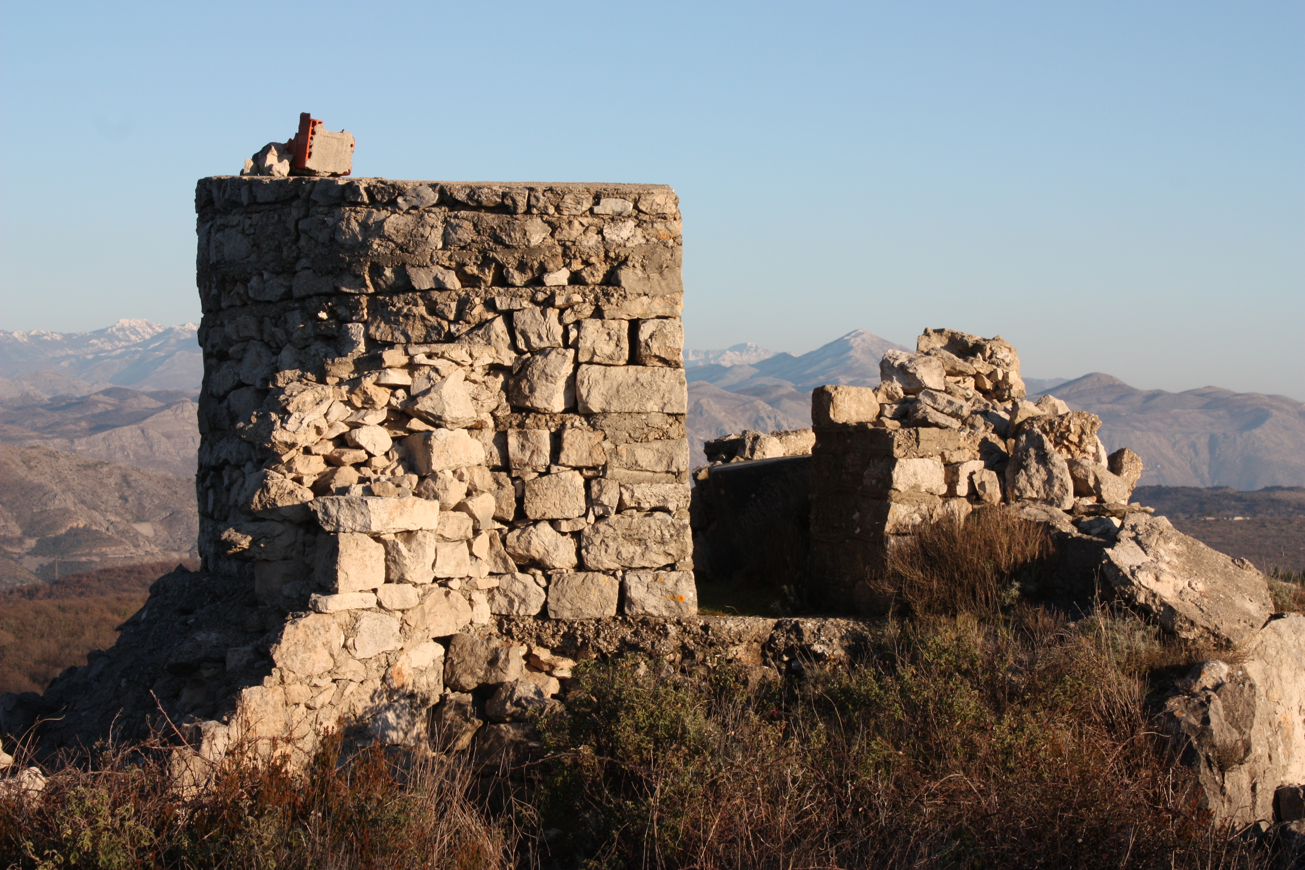 Ruins of Fort Strinčjera - eastern tower